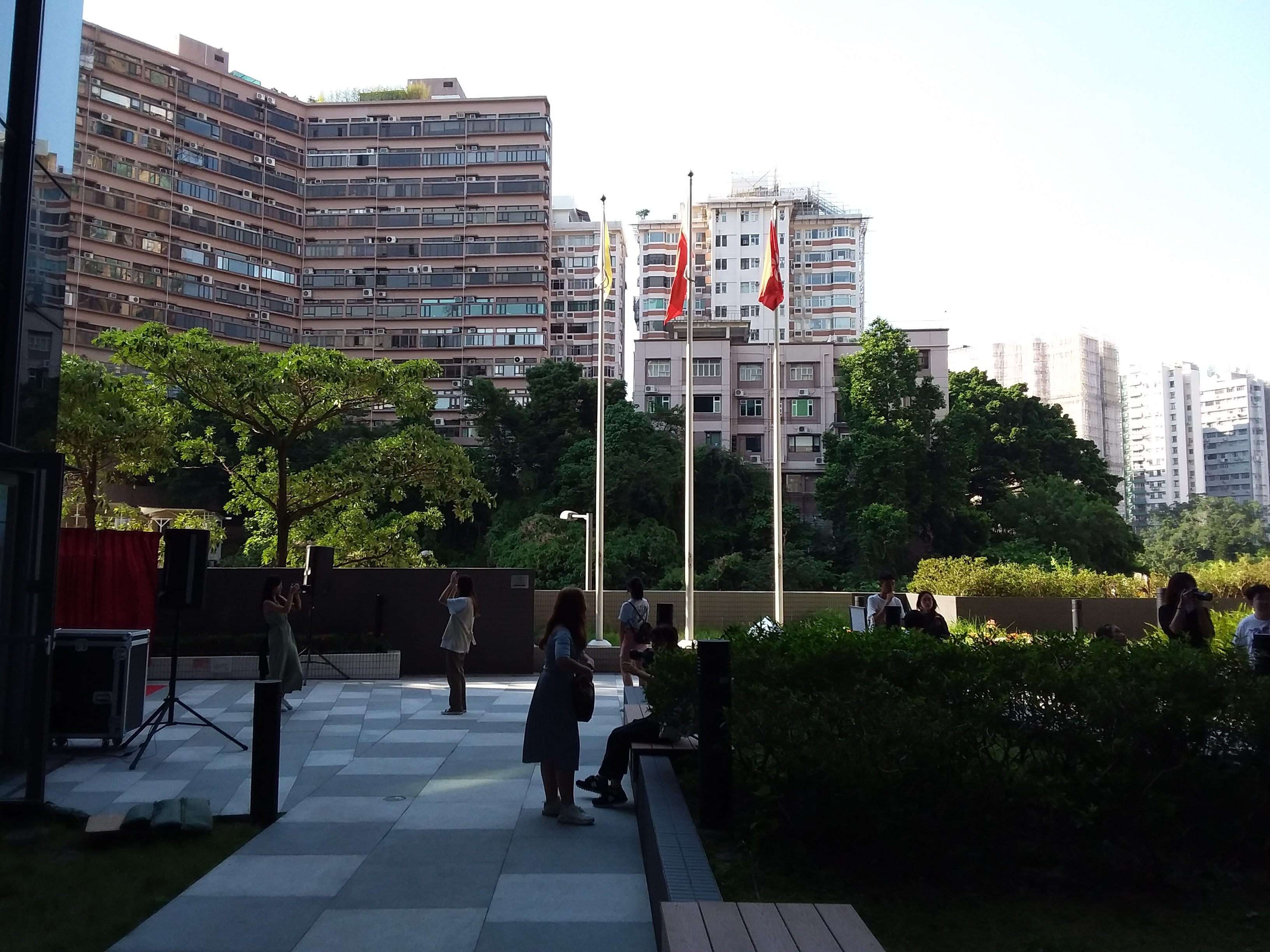 HK 何文田 Ho Man Tin 香港公開大學 OUHK Jockey Club Campus 忠孝街 Chung Hau Street in September 2019